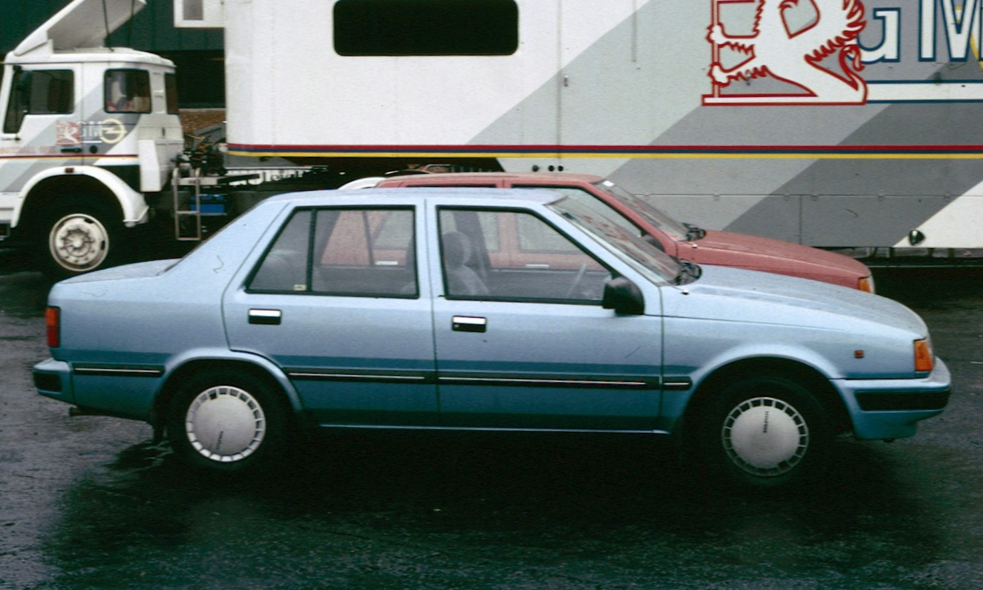 Hyundai Pony in Europe